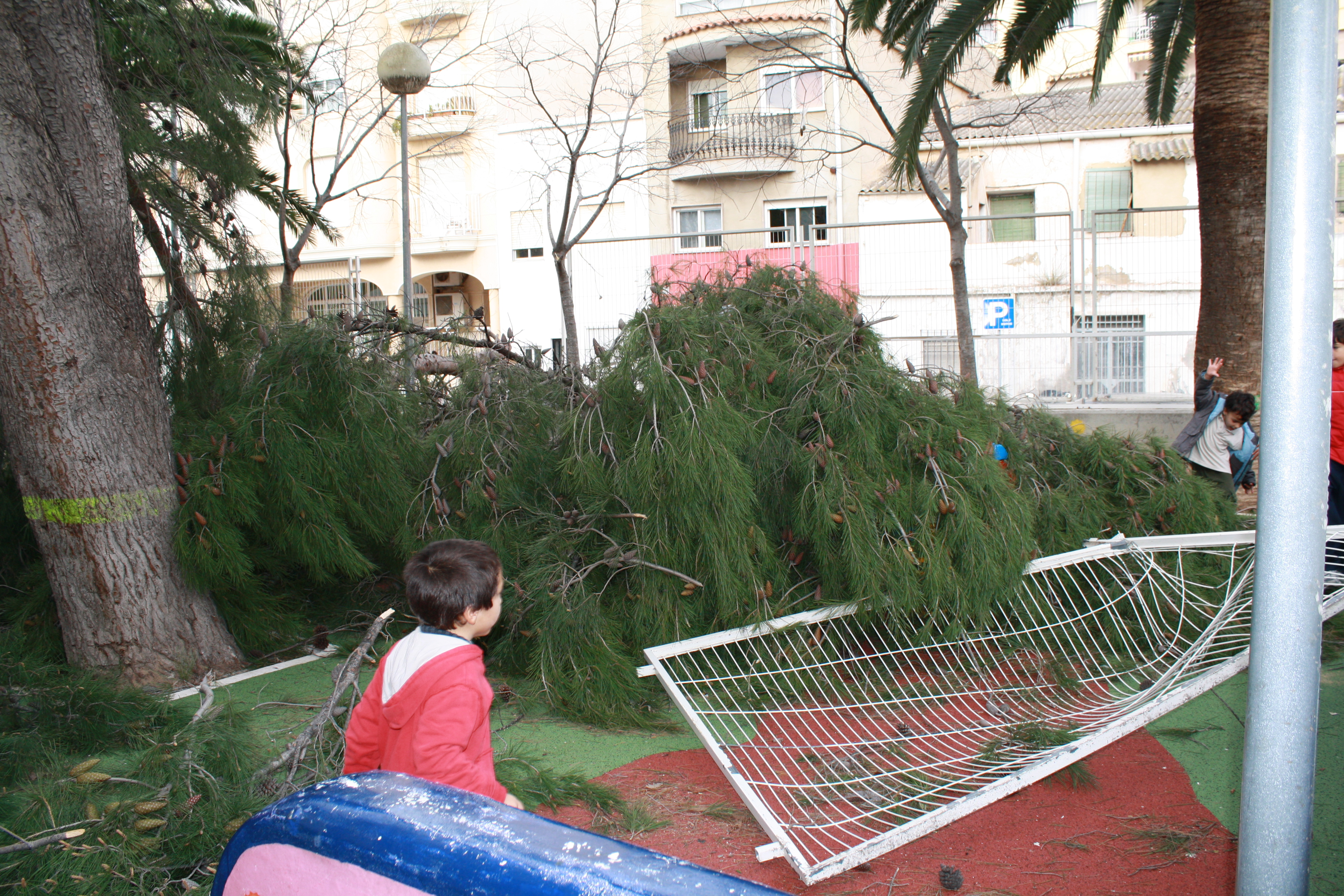 Fallen tree in public school in gandia.